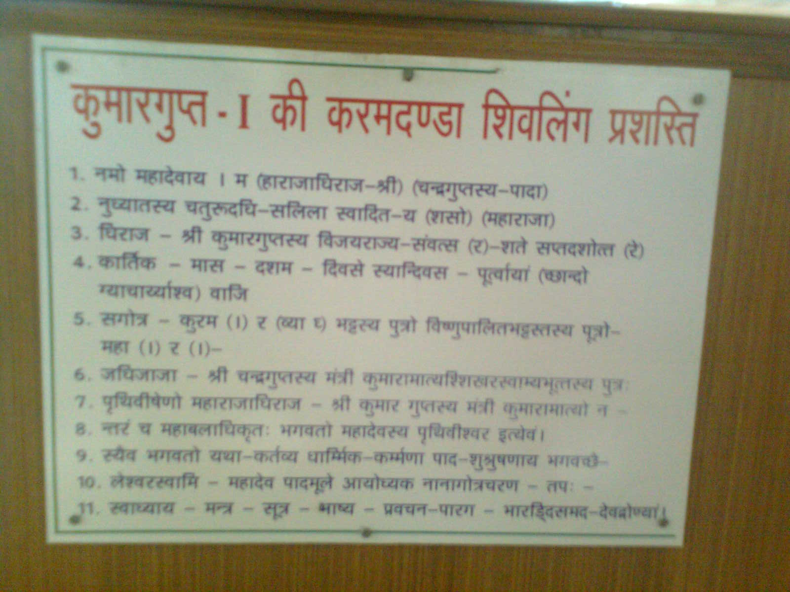 Deciphered as Prashasti by Kumargupta-I.